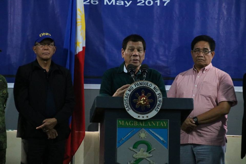 We will fight everyday until this conflict is resolved," President Rodrigo Roa Duterte says to the men of the 2nd Mechanized Infantry Brigade in Iligan City on 26 May 2017 during his talk to men.